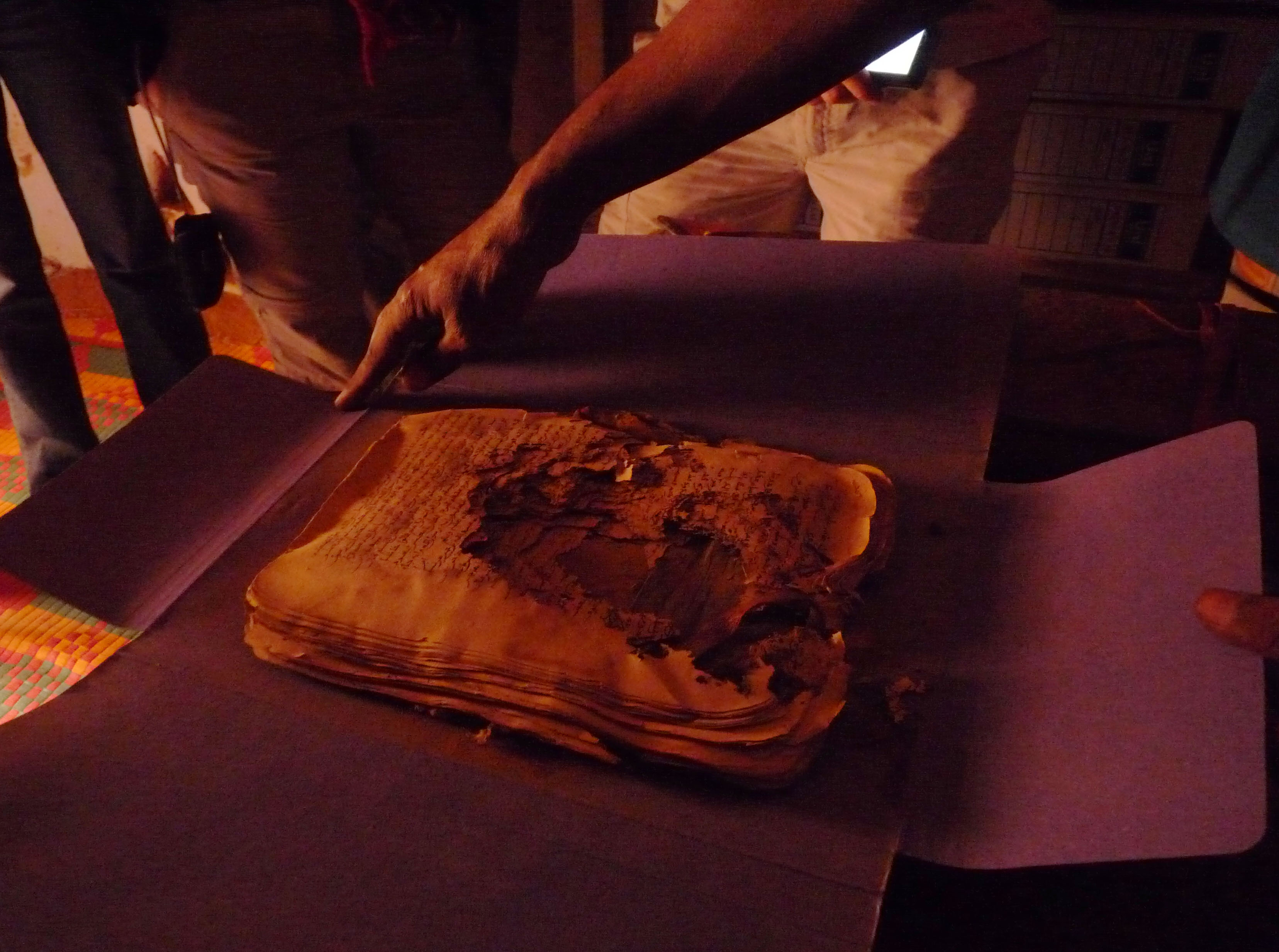 Old manuscript damaged by termites in Chinguetti library (Mauritania)